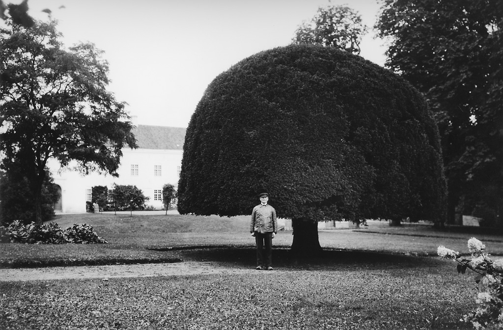 100-year-old shaped yew tree (taxus baccata) at Ellinge castle. 100-årig formklippt idegran (taxus baccata) vid Ellinge slott. Parish (socken): Eslöv Province (landskap): Skåne Municipality (kommun): Eslöv County (län): Skåne Photograph by: Mårten Sjöbeck Date: 1927 Format: Film Persistent URL: Read more about the photo database (in english)